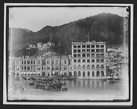 Title: View of the harbor and the Hong Kong Hotel Physical description: 1 photographic print : gelatin silver ; 8 x 10 in. or smaller. Notes: Photographic print made by LC from Jackson's vintage glass negative.; Forms part of: Jackson, William Henry, 1843-1942. World's Transportation Commission photograph collection (Library of Congress).; Gift; Colorado Historical Society; 1949.